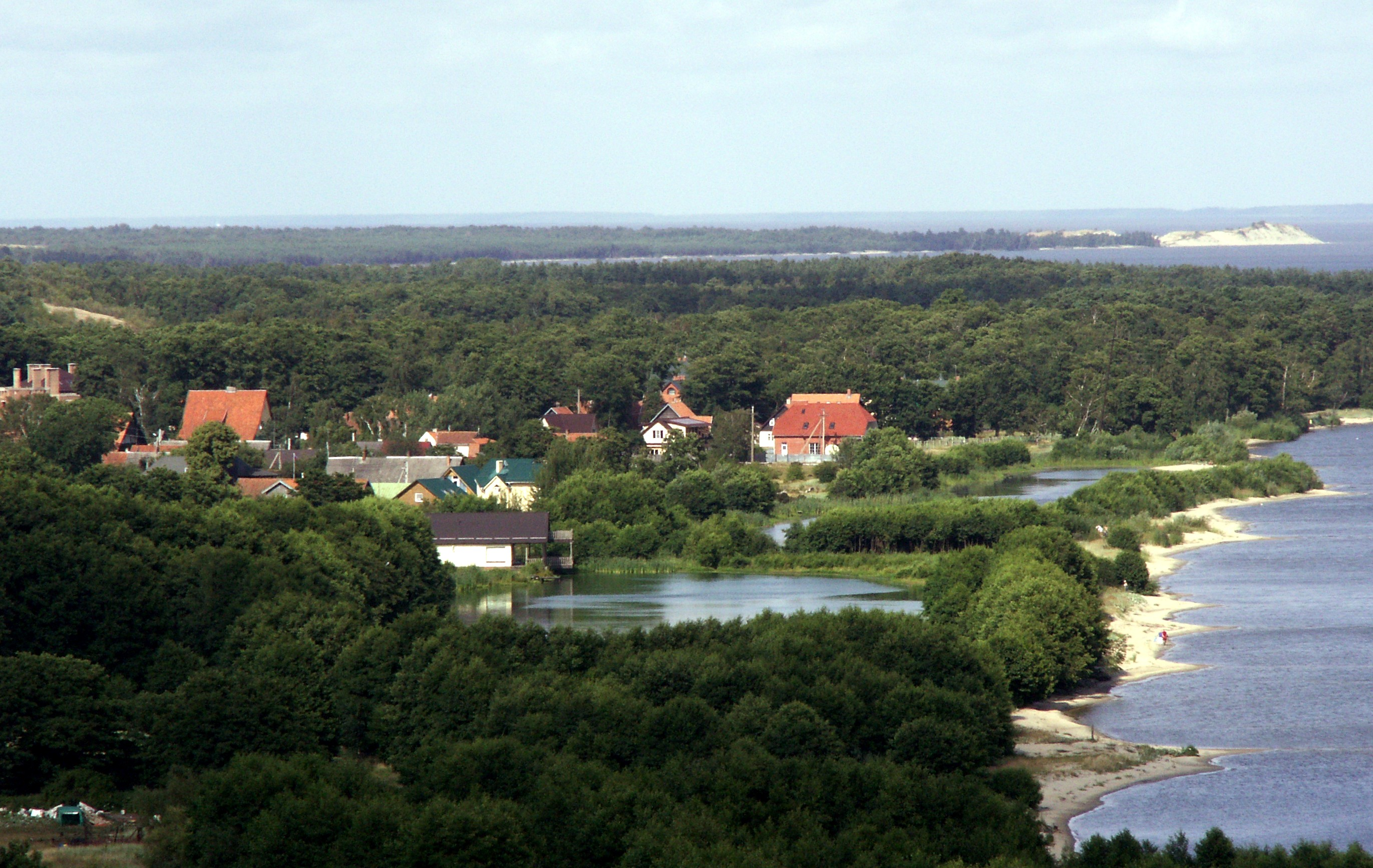 Morskoye from Epha berg in Curonian Spit, Kaliningrad oblast